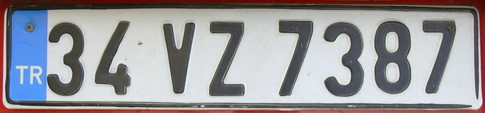 A Turkish license plate